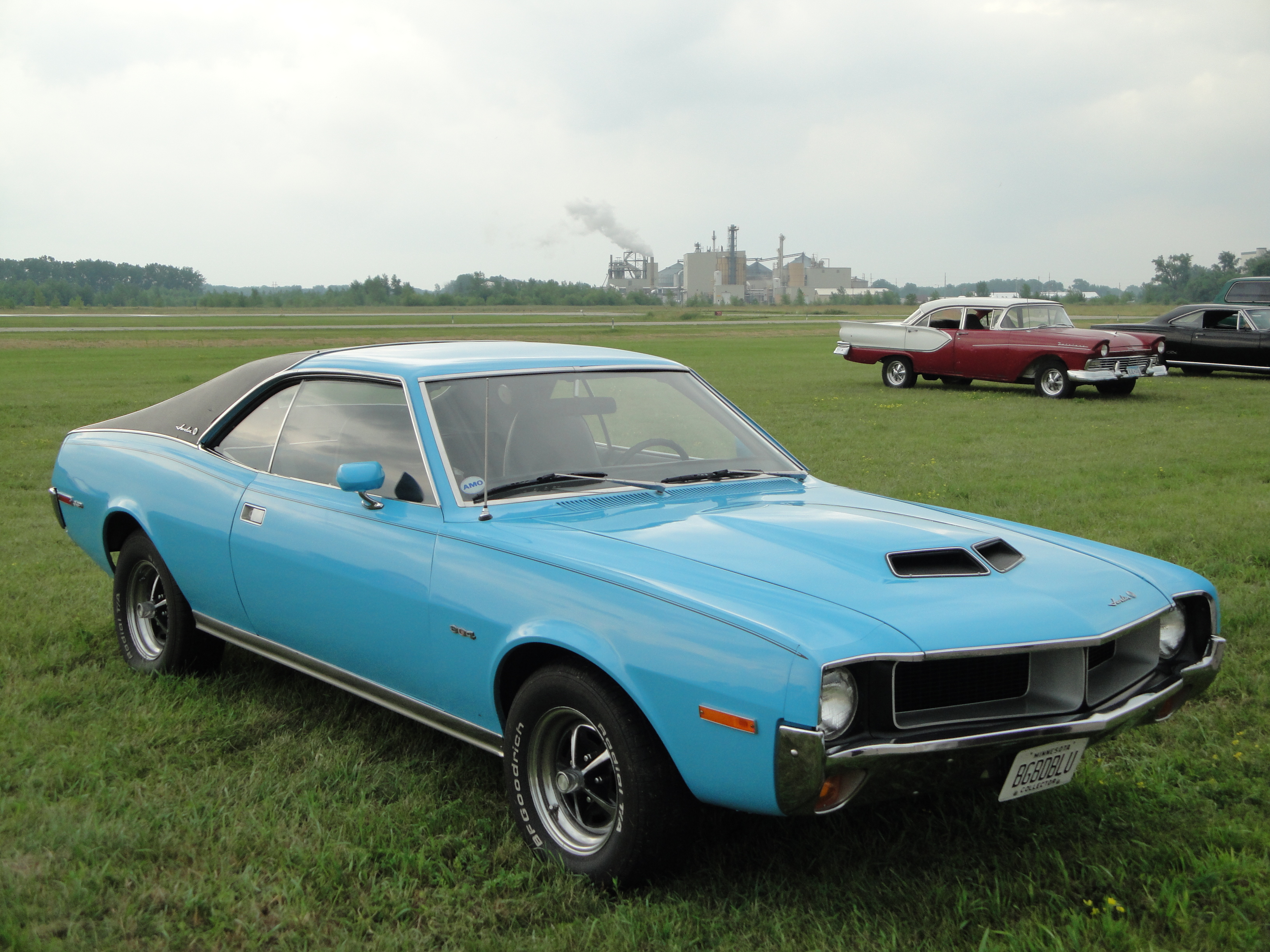 1970 AMC Javelin SST model, a two-door hardtop (no B-pillar) pony car finished in American Motors' special "Big Bad Blue" paint code: 2A, with optional half vinyl roof in black. Benson Kids and Cars July 2011 Car Show